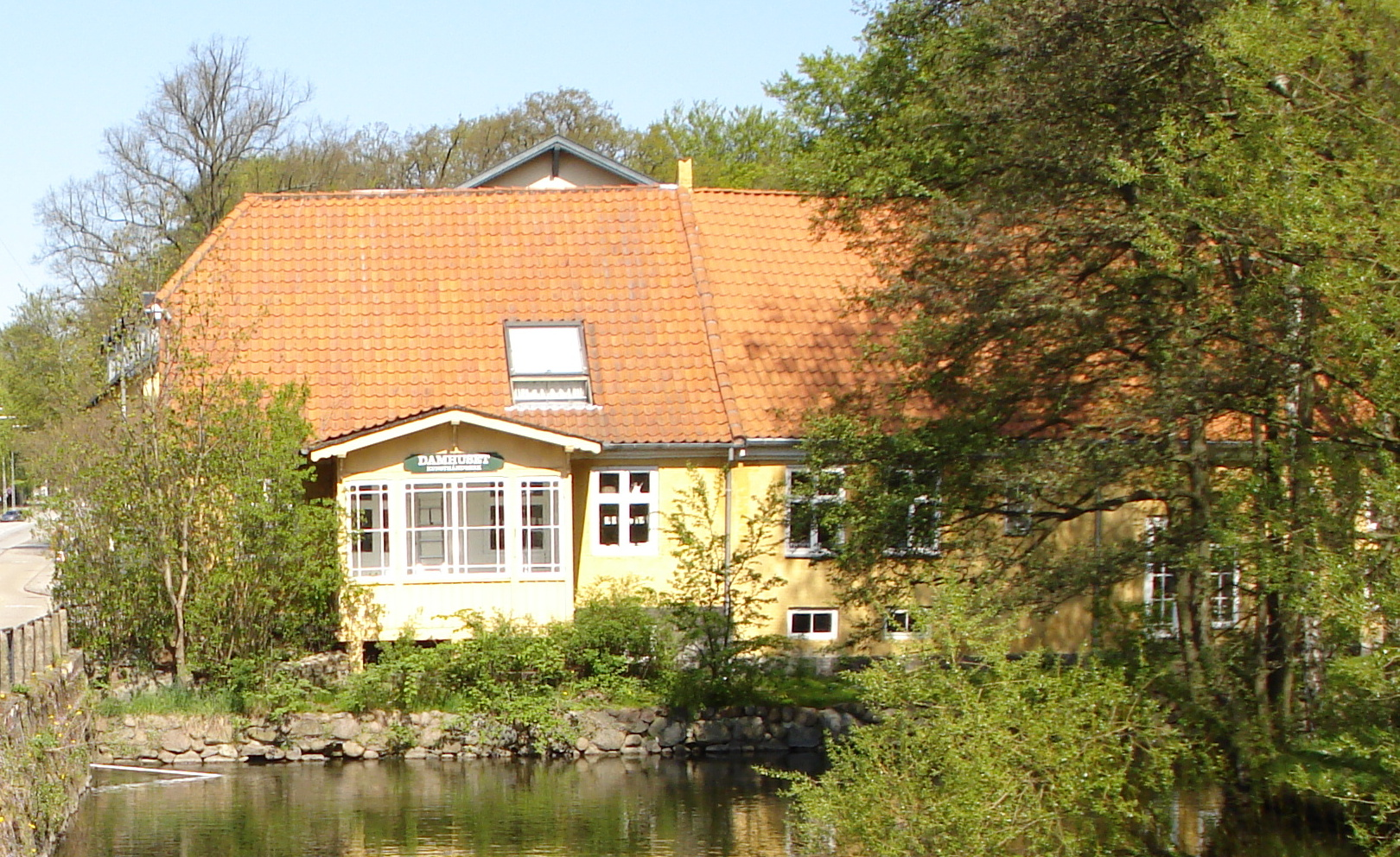 Den Gule Længe, building on Lyngby Hovedgade next to Mølleåen in Kongens Lyngby, Denmark.